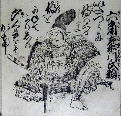 Rokkaku Ujiyori